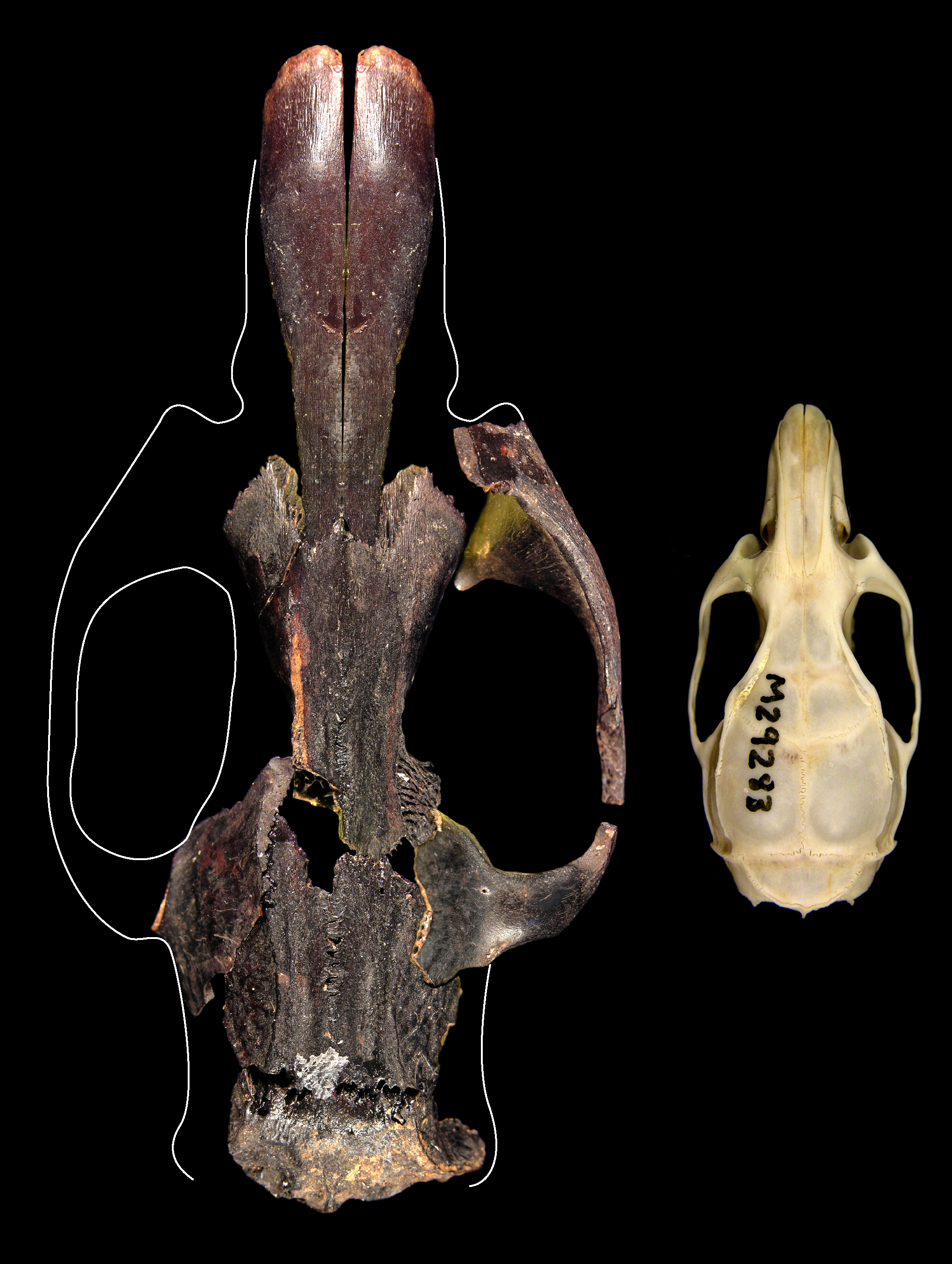 The skull of a black rat (right) compared with a fairly complete skull of one of Timor's other extinct giant rats (left). The giant rat shown here isn't the biggest of the extinct rats, which was around 25 per cent bigger again. Archaeological research in East Timor in 2010 unearthed the bones of the biggest rat that ever lived, with a body weight around 6 kg. The cave excavations also yielded a total of 13 species of rodents, 11 of which are new to science. Eight of the rats weighed a kilogram or more. Carbon dating shows that the biggest rat that ever lived survived until around 1000 to 2000 years ago, along with most of the other Timorese rodents found during the excavation. Only one of the smaller species found is known to survive on Timor today.